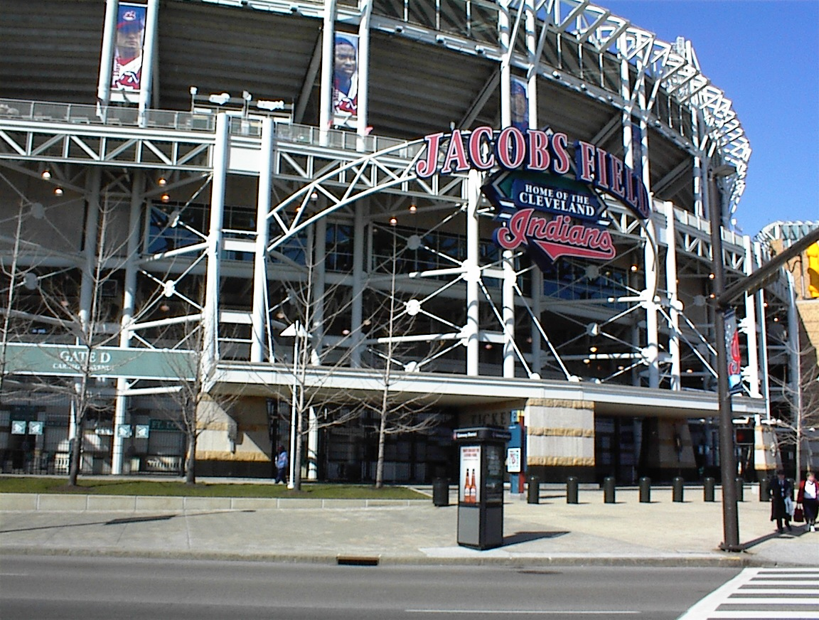 IBHMC (I) Took this picture in 2003. The stadium looks itentical now as it did then. This picture is otherwise on my computer only. It is not on any other web site or publication. 00:33, 27 September 2006 . . IBHMC . .1152 x 872 (411,660 bytes)